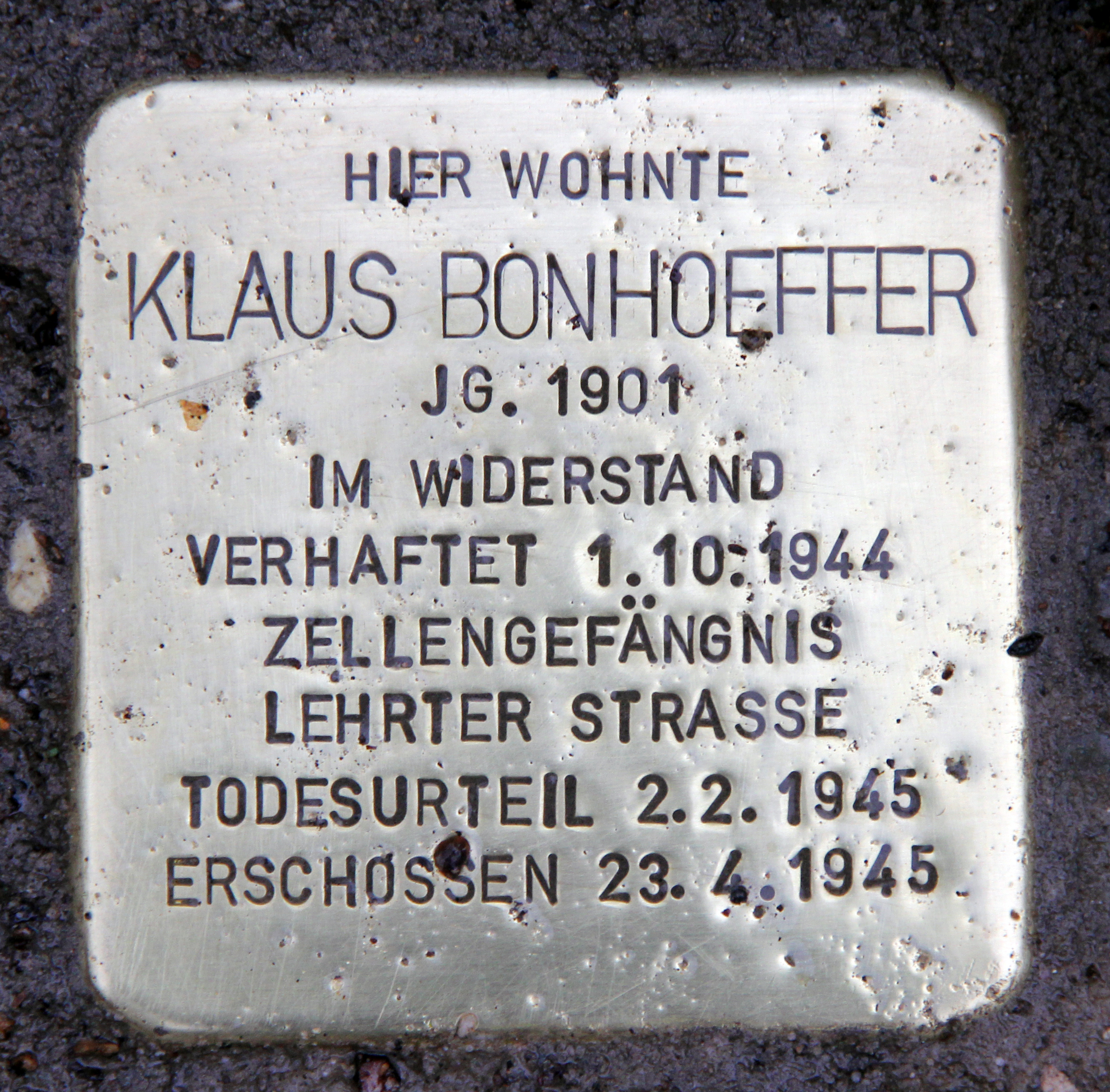 "Stolperstein" (stumbling block), Klaus Bonhoeffer, Alte Allee 9-11, Berlin-Westend, Germany